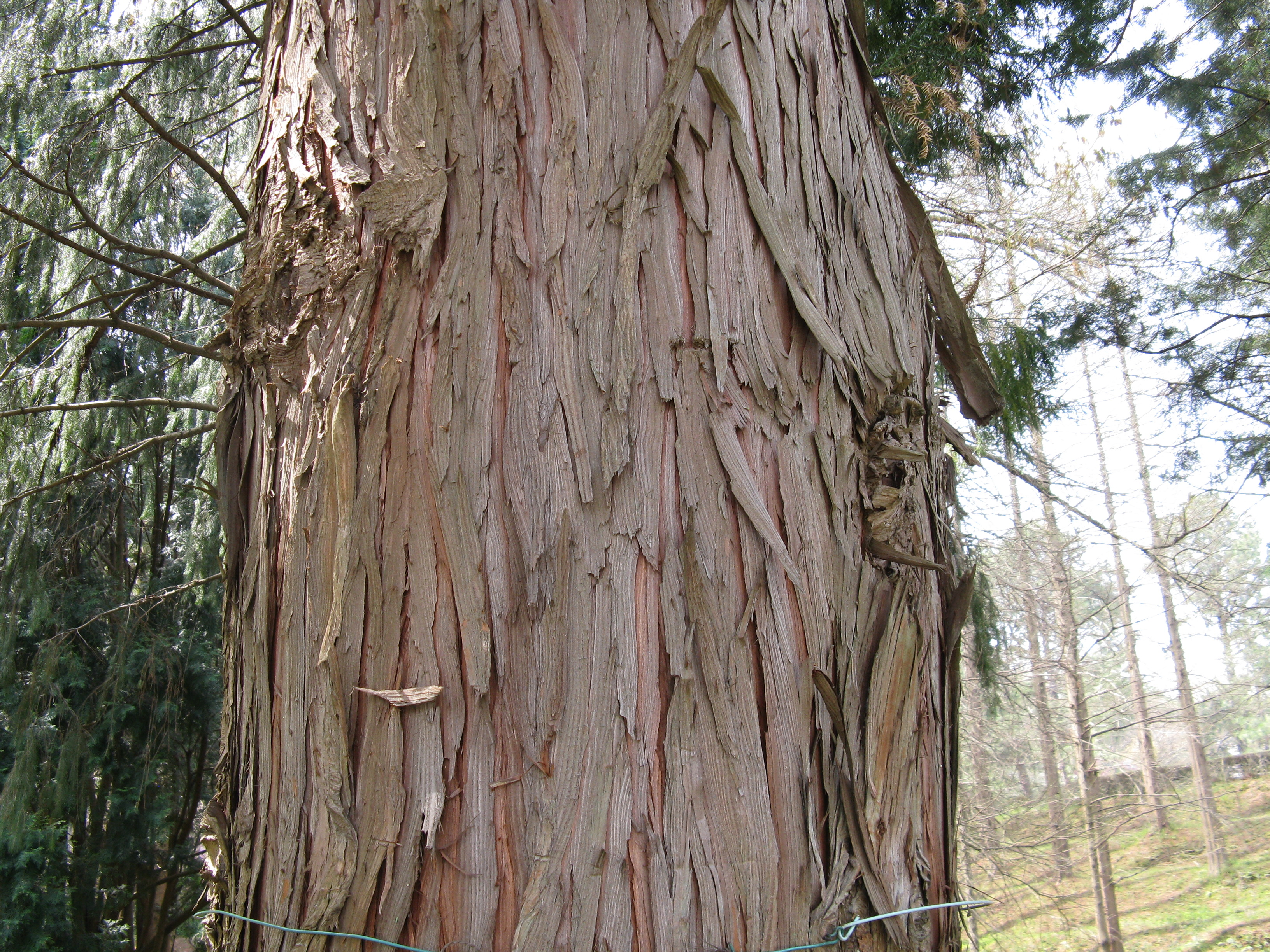 Taiwania cryptomerioides